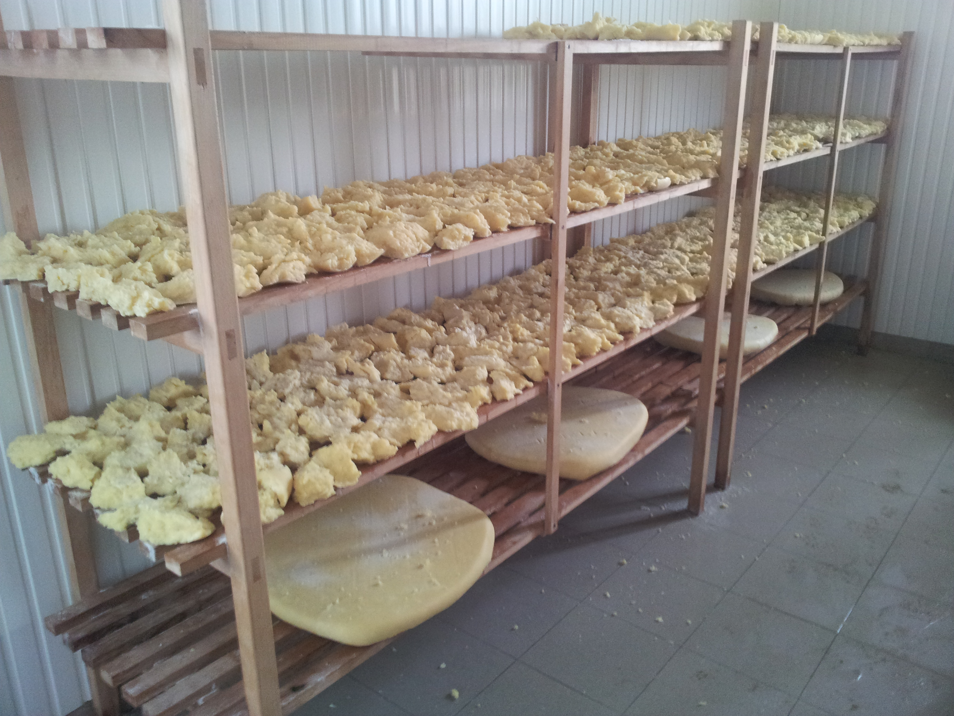 Sharri cheese drying and getting the right color